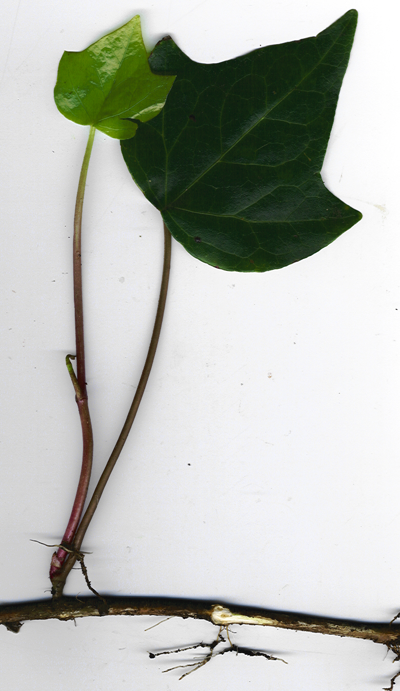 Hedera algeriensis (plant). Location: Maui, Piiholo